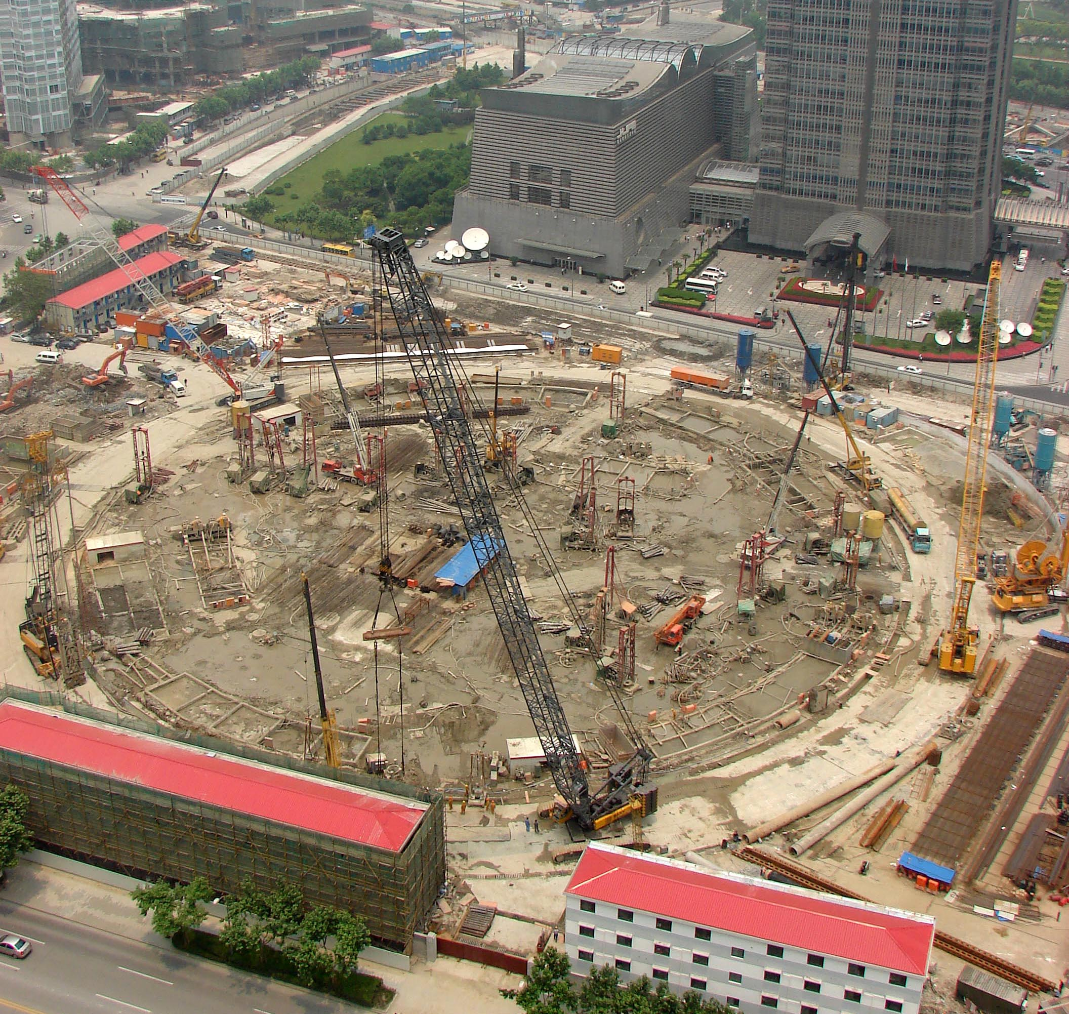 Construction Site of Shanghai Tower as seen from south. Workers' accomodation in the foreground. Jin Mao Tower and Oriental Pearl Tower in the background.